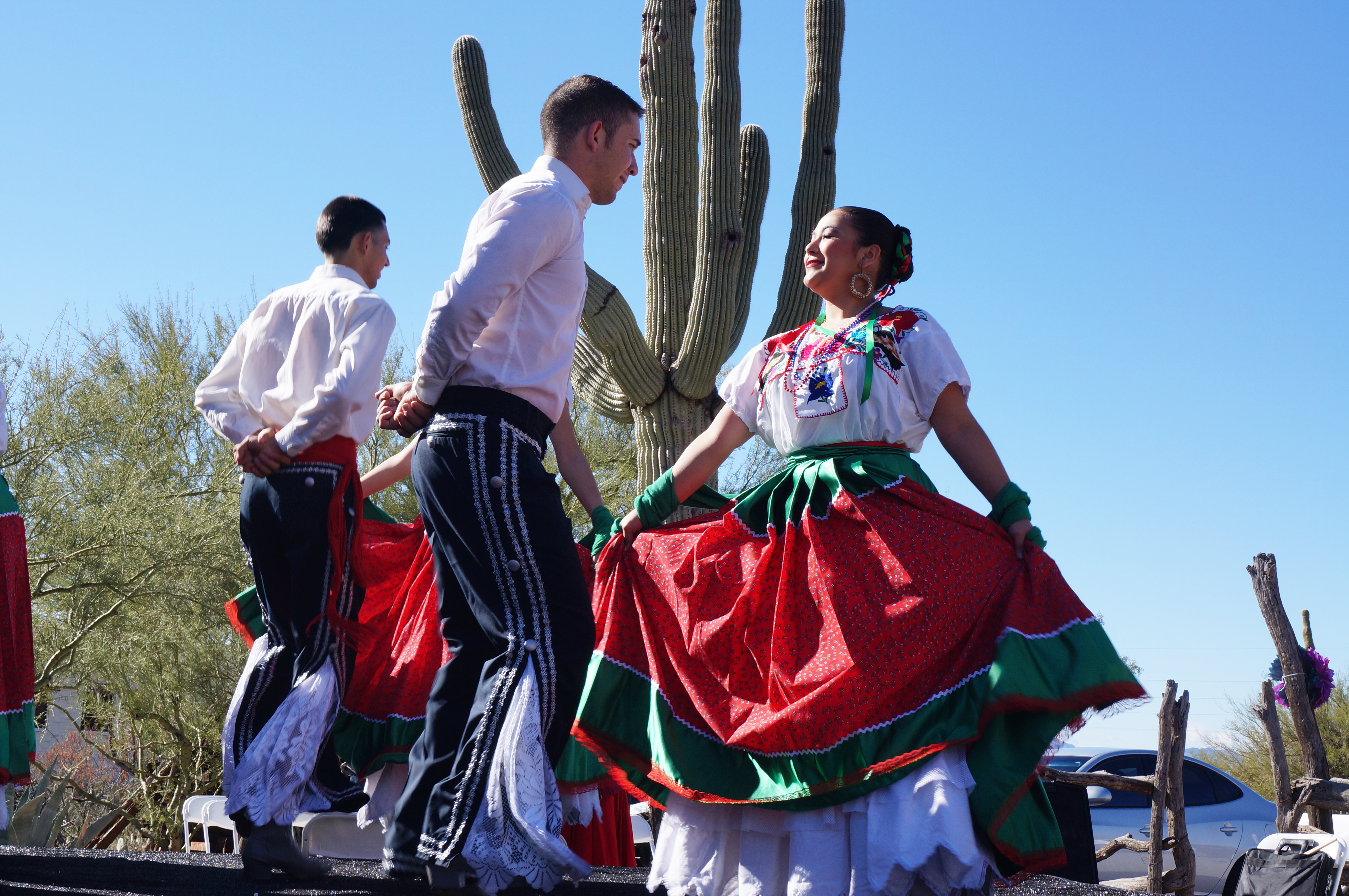 Folklorico dancers at the Gallery In the Sun during the Festival of Guadalupe- held every December.